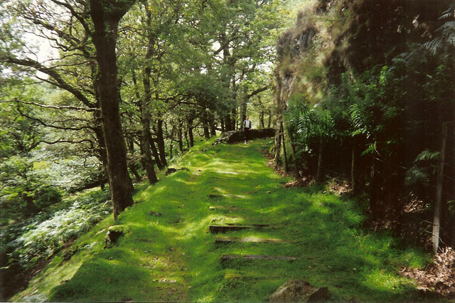 The remains of the old Ffestiniog Railway trackbed where the line was diverted near Dduallt.